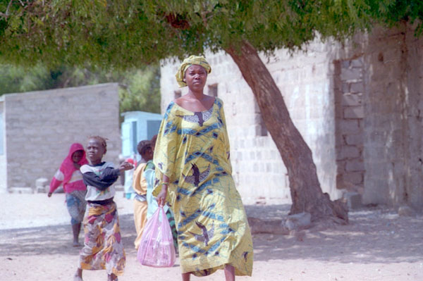 Woman in a street in Senegal.